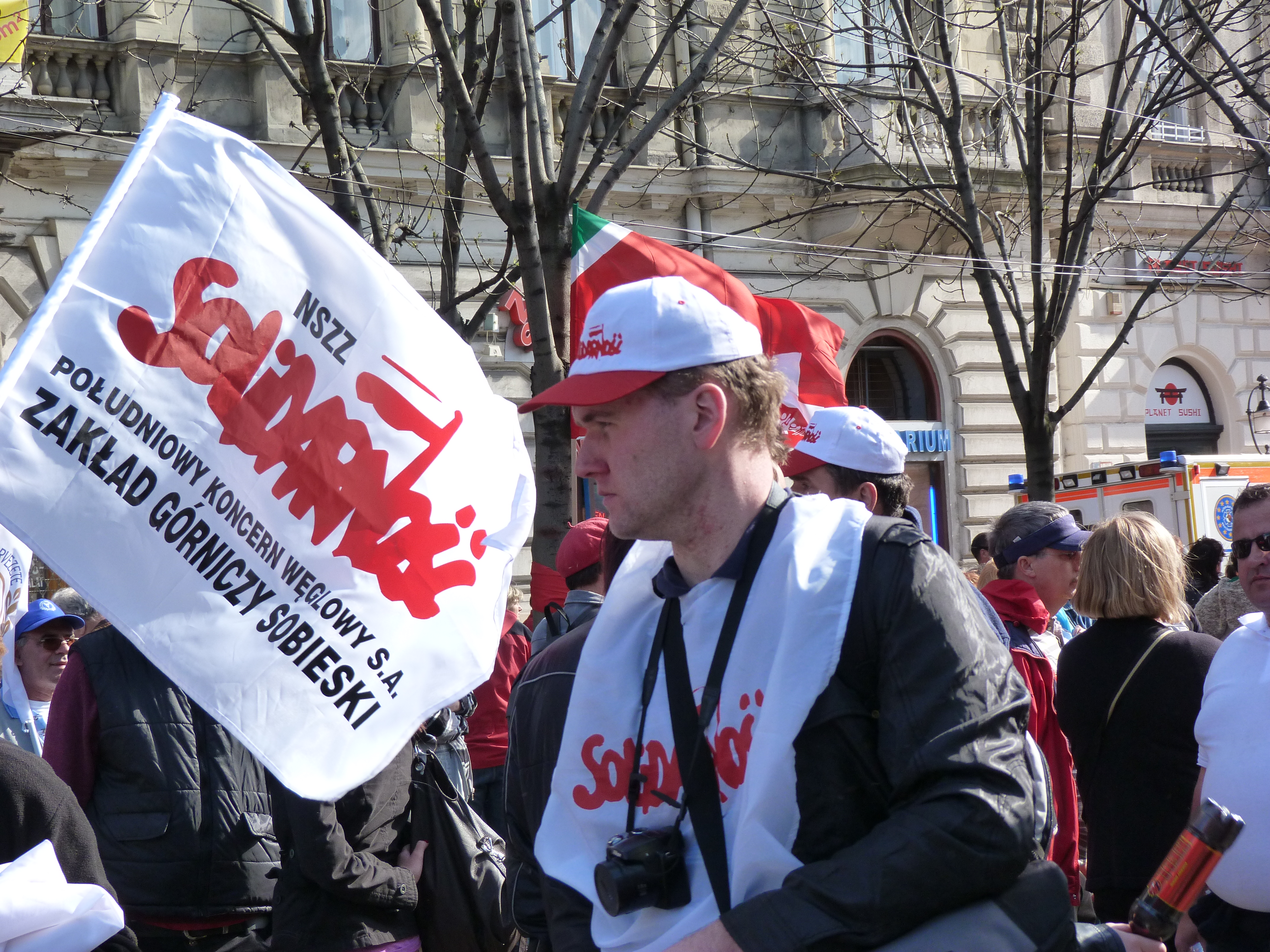 Live on the 9th of April, 2011, Budapest, the Andrássy avenue. The demonstration of the European Trade Union Confederation (ETUC). John Monks, the General Secretary of the ETUC. He said: we will not pay the price ! Solidarnosc. Források: A pénzvilág adósságcsapdája